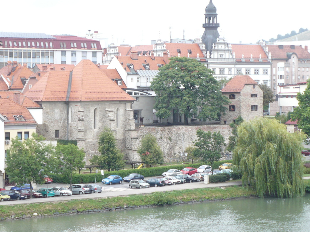 Maribor Jewish qwarter